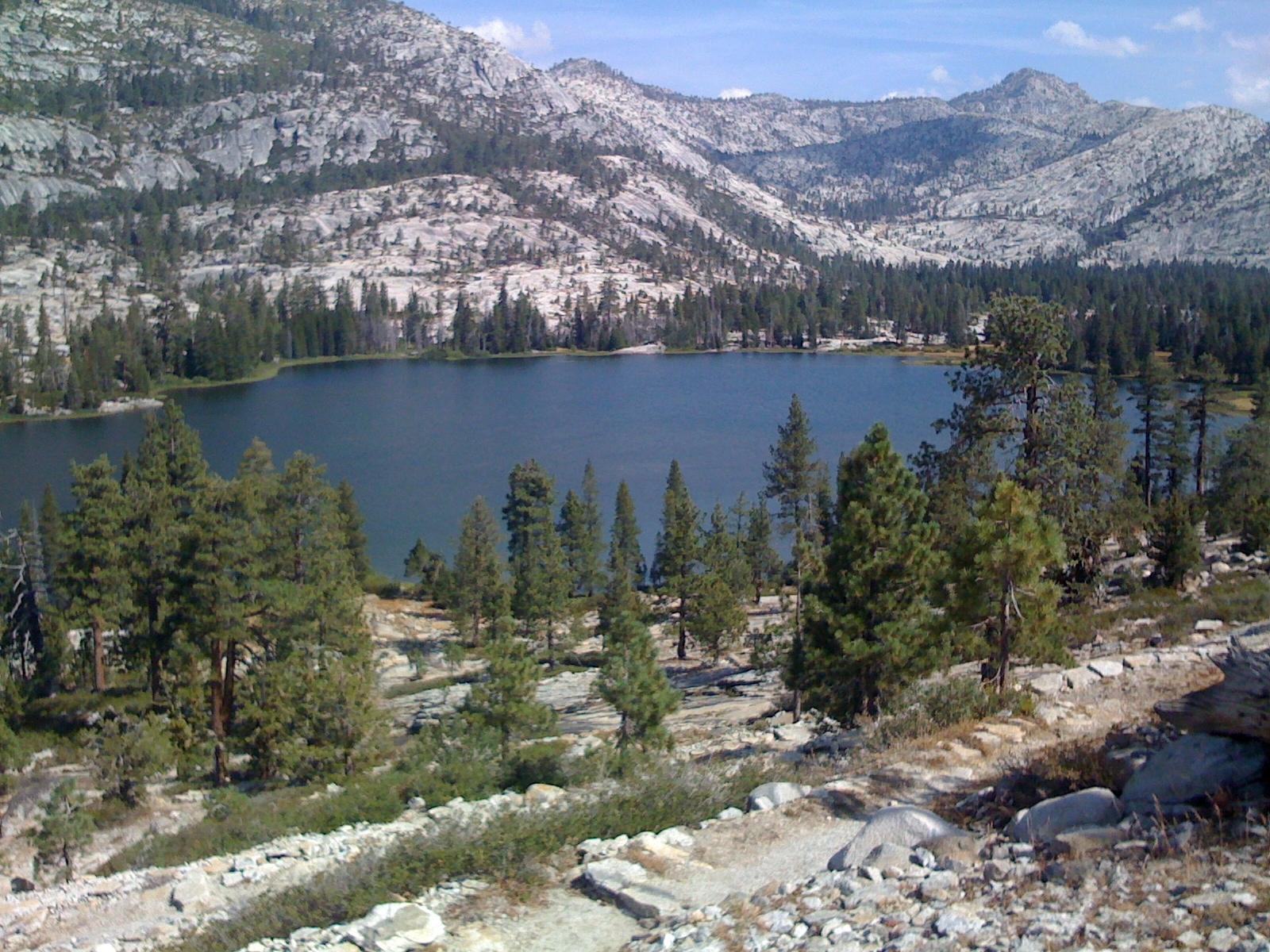 Lake Vernon, Yosemite National Park, United States